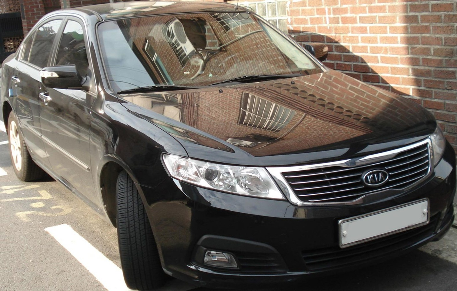 Kia Lotze Innovation